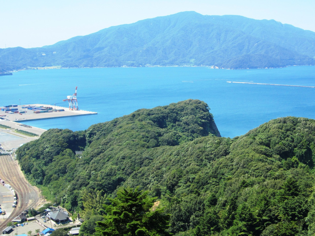 The Site of Kanegasaki Castle view from Tezutsu-yama in Tsuruga, Fukui.